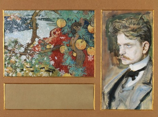 Sibelius as the Composer of En saga, 1894, triptych by Akseli Gallen-Kallela, Ainola Foundation, Jarvenpää, Finland